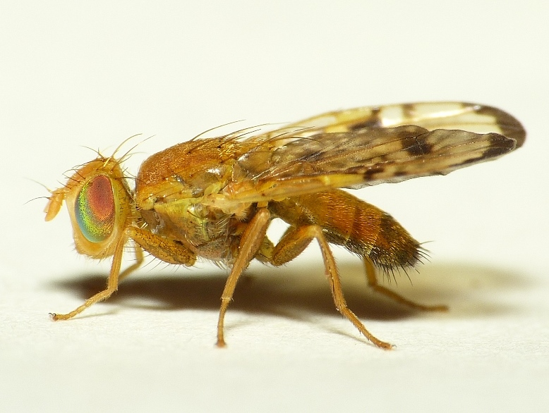 Xyphosia miliaria male, location: The Netherlands - Rhenen - Blauwe Kamer - Gelderland